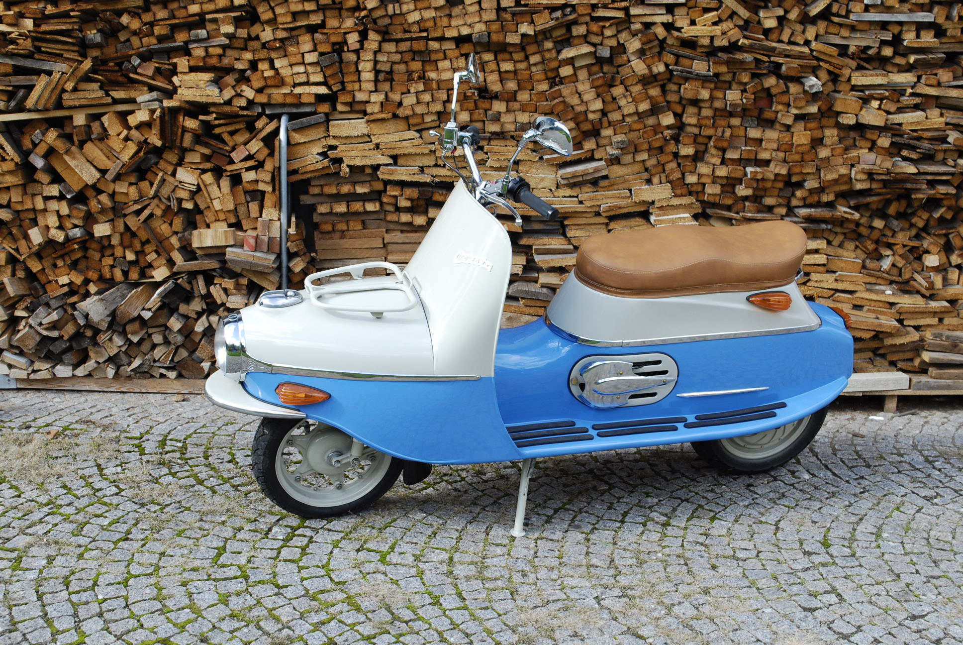 Handbuilt high-performance electric scooter.